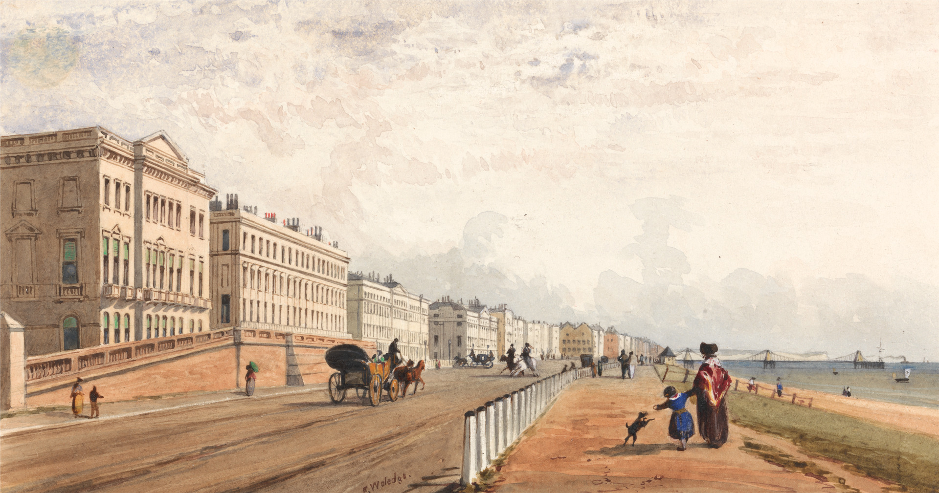 "Brighton: the front and the chain pier seen in the distance," by Frederick William Woledge (active 1840). Graphite, pen and ink, gum arabic, watercolor, gouache on wove paper. 5 3/8 inches × 10 inches (13.7 cm × 25.4 cm). Courtesy of the Paul Mellon Collection, Yale Center for British Art, Yale University, New Haven, Connecticut.